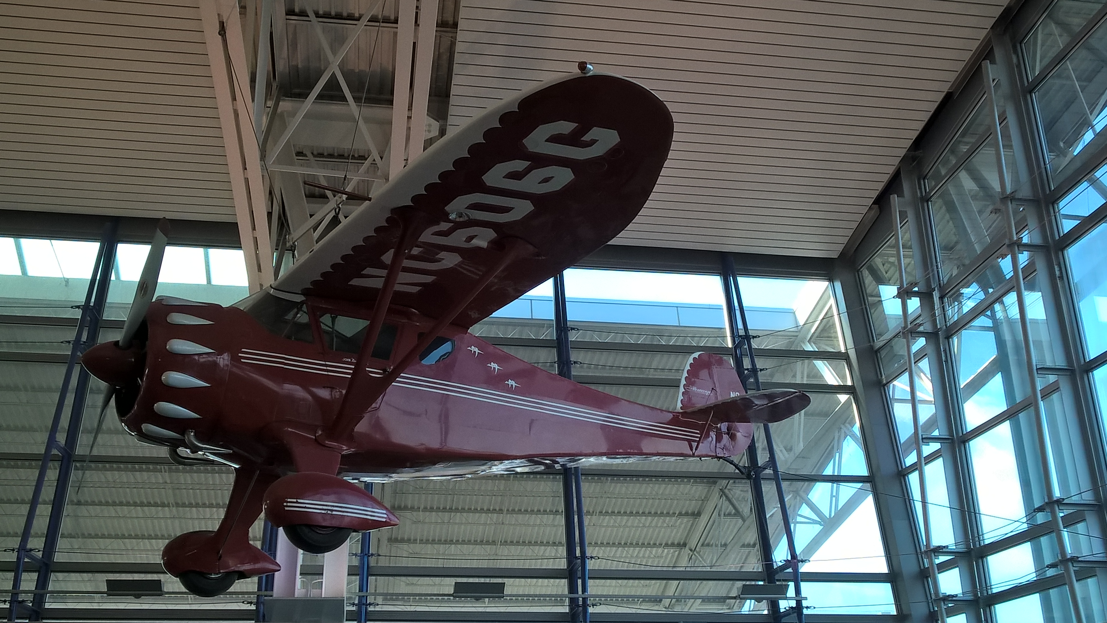 NC606G is a Monocoupe 110 Special owned by the Missouri Historical Society on display in T2 at St. Louis Lambert International Airport.